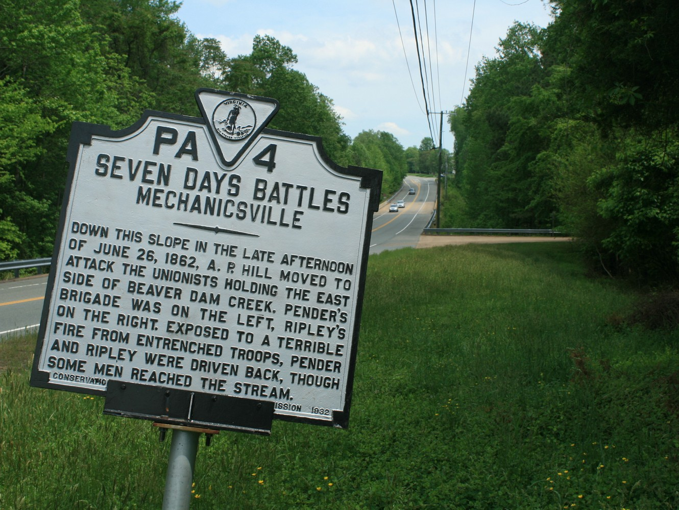 Battle of Mechanicsville historical marker